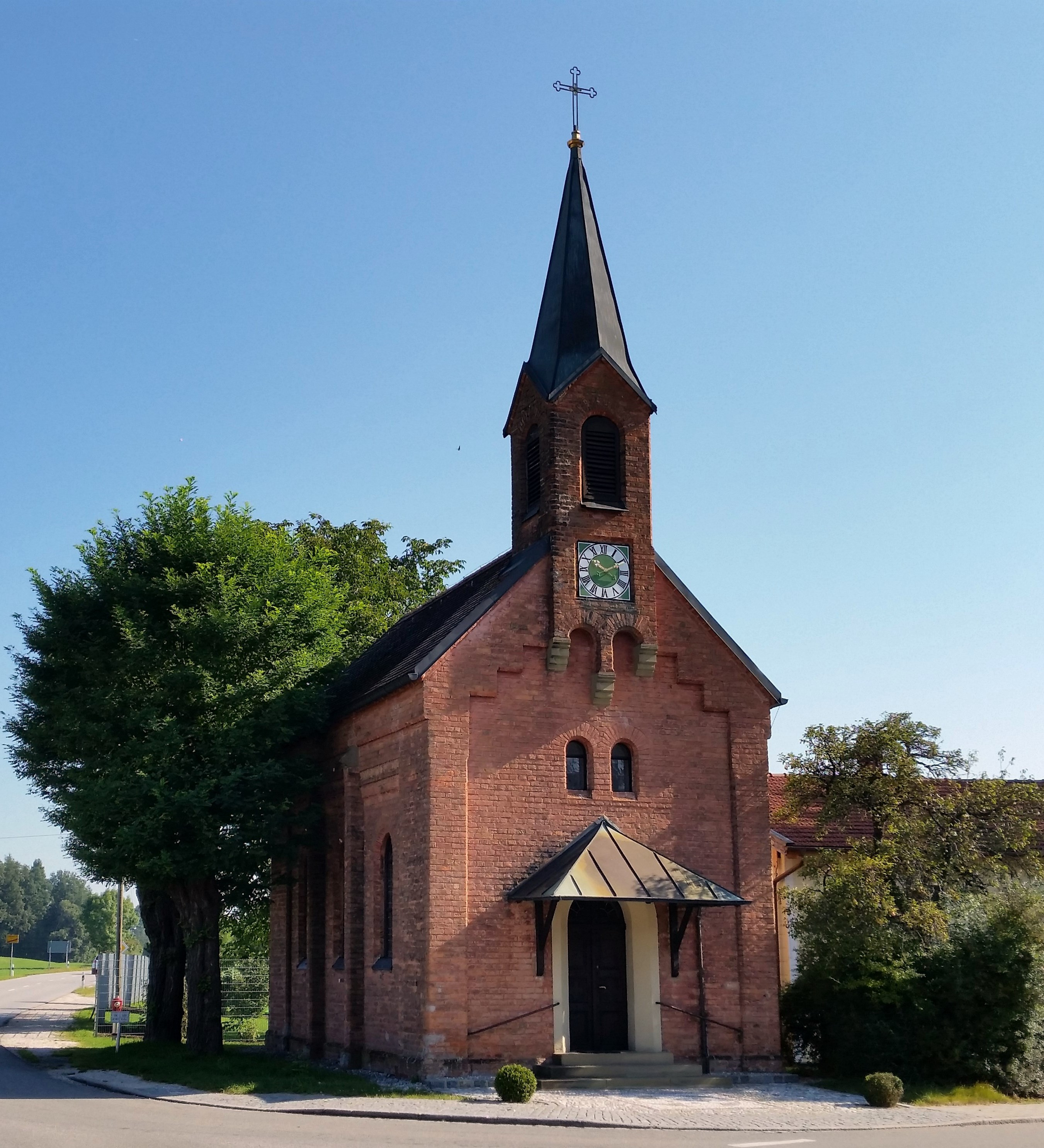 This is a photograph of an architectural monument.